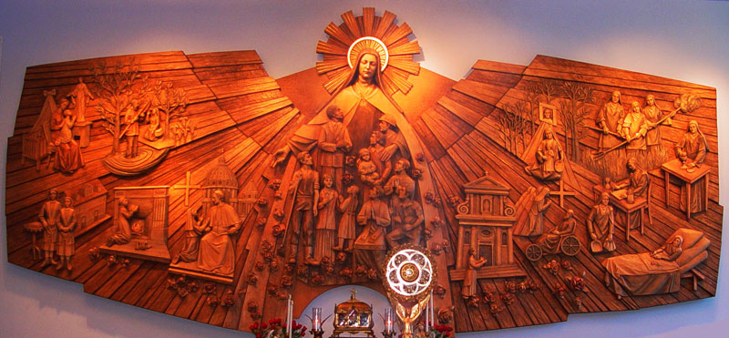 This 12 by 28 foot lindenwood bas-relief carving depicts events from the life of St. Therese of the Child Jesus and the Holy Face. It hangs in the National Shrine of St. Therese in Darien, Illinois and is the largest religious wooden carving in the United States.